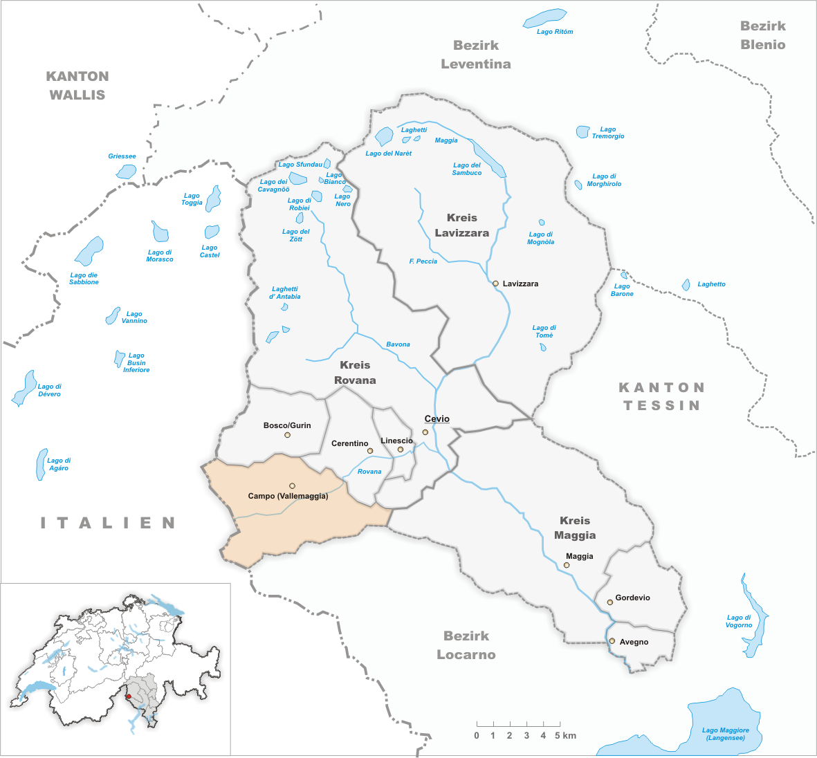 Municipality Campo (Vallemaggia)